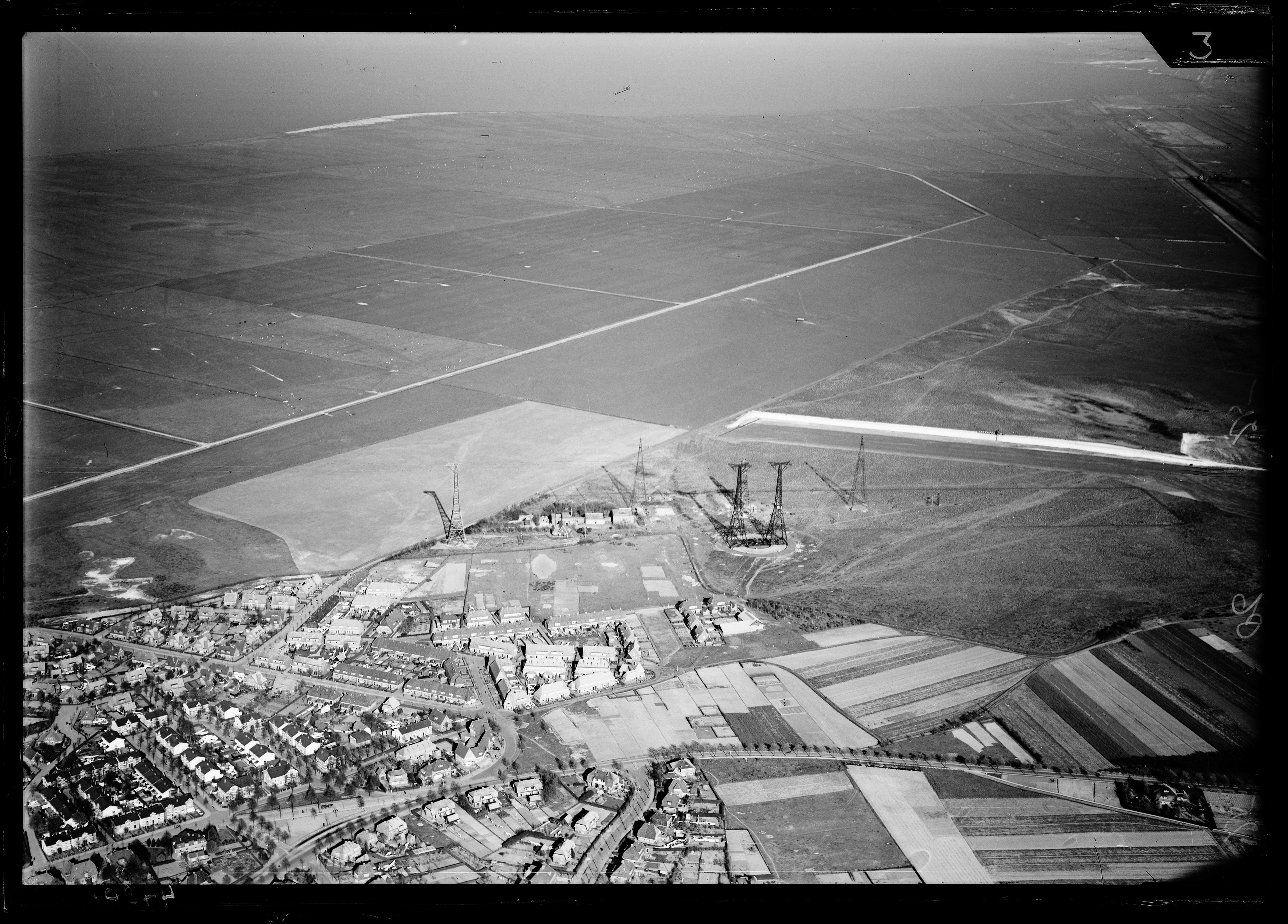 Aerial photograph of Huizen, The Netherlands